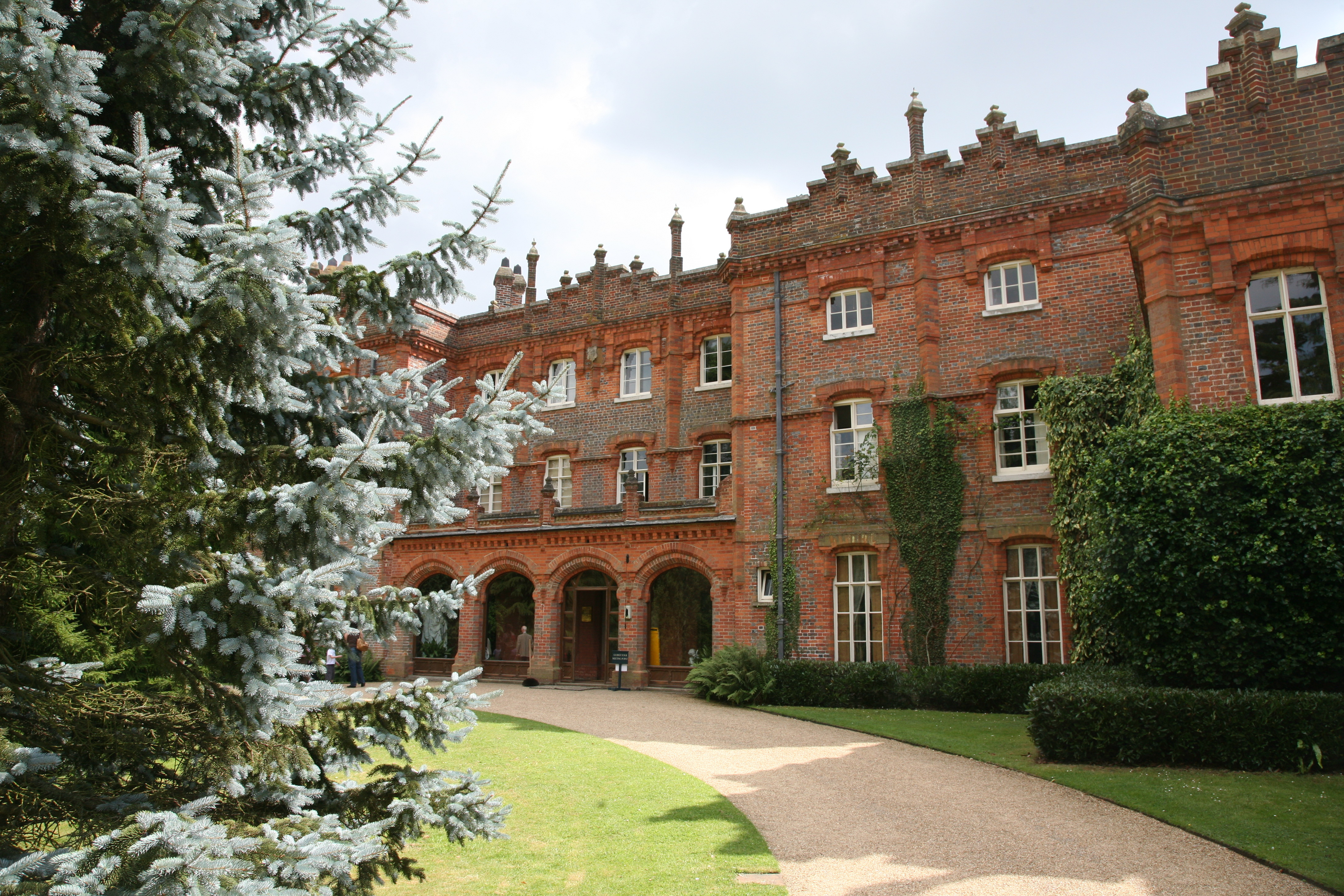 Hughenden Manor. The residence of Benjamin Disraeli, later Earl of Beaconsfield. Now a National Trust property.